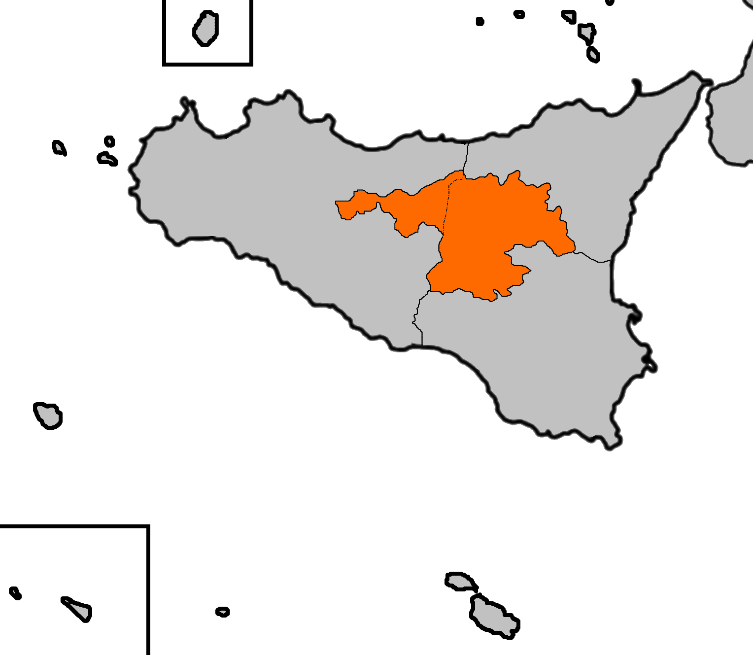 Localisation map of the Vallo di Castrogiovanni between 1183 to 1231.